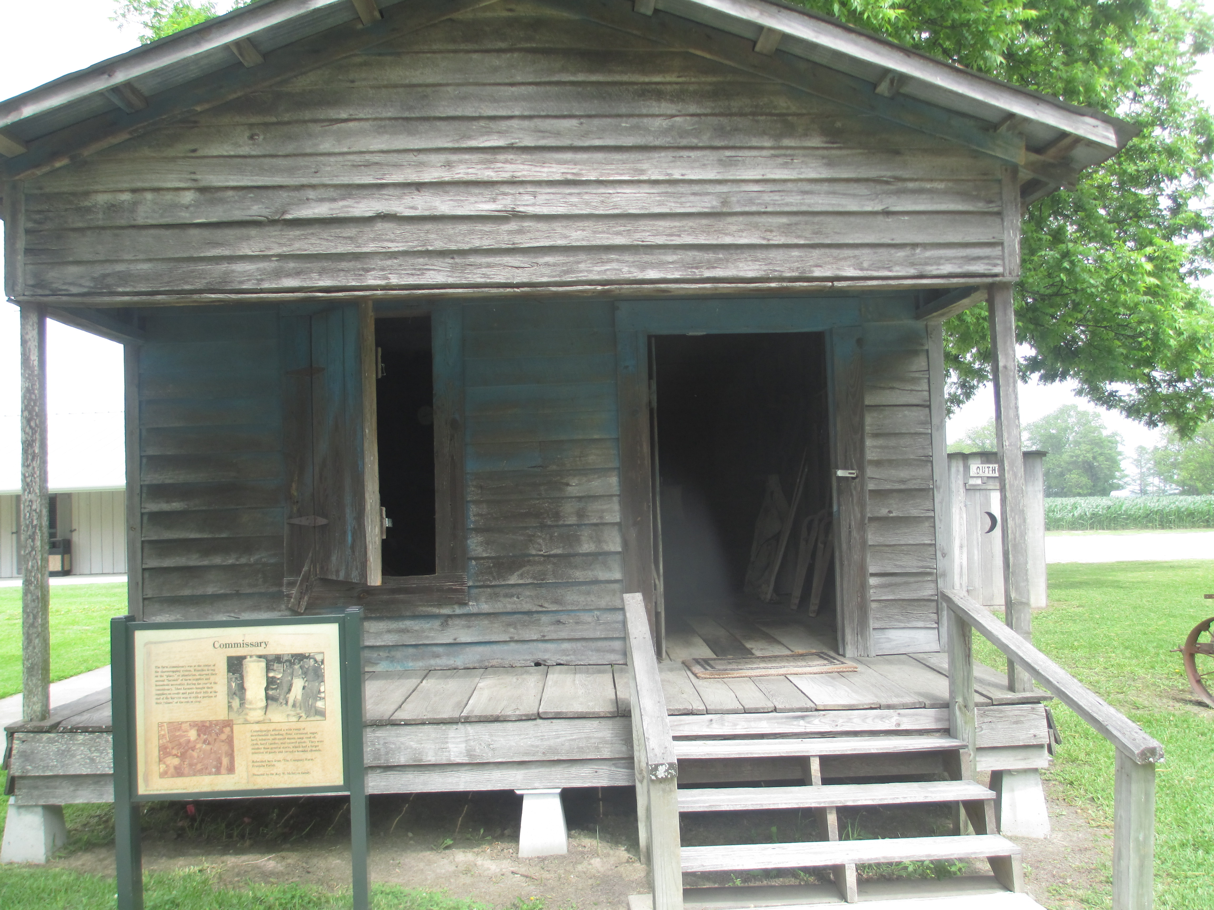 I took photo of commissary of sharecroppers on exhibit at Louisiana State Cotton Museum in Lake Providence, LA, with Canon camera.